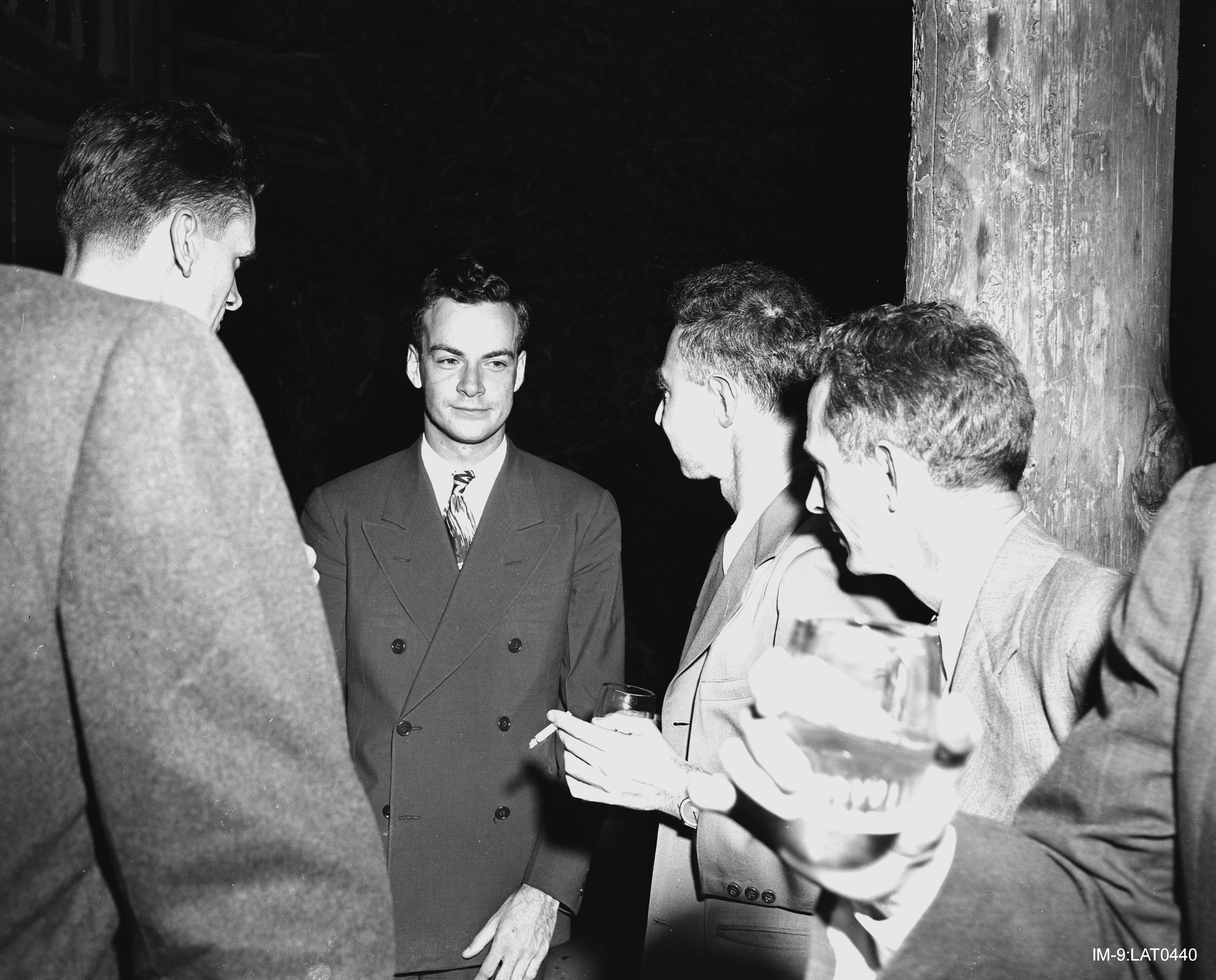 Richard Feynman (center) and Robert Oppenheimer (to viewer's right of Feynman) at Los Alamos National Laboratory during the Manhattan Project.